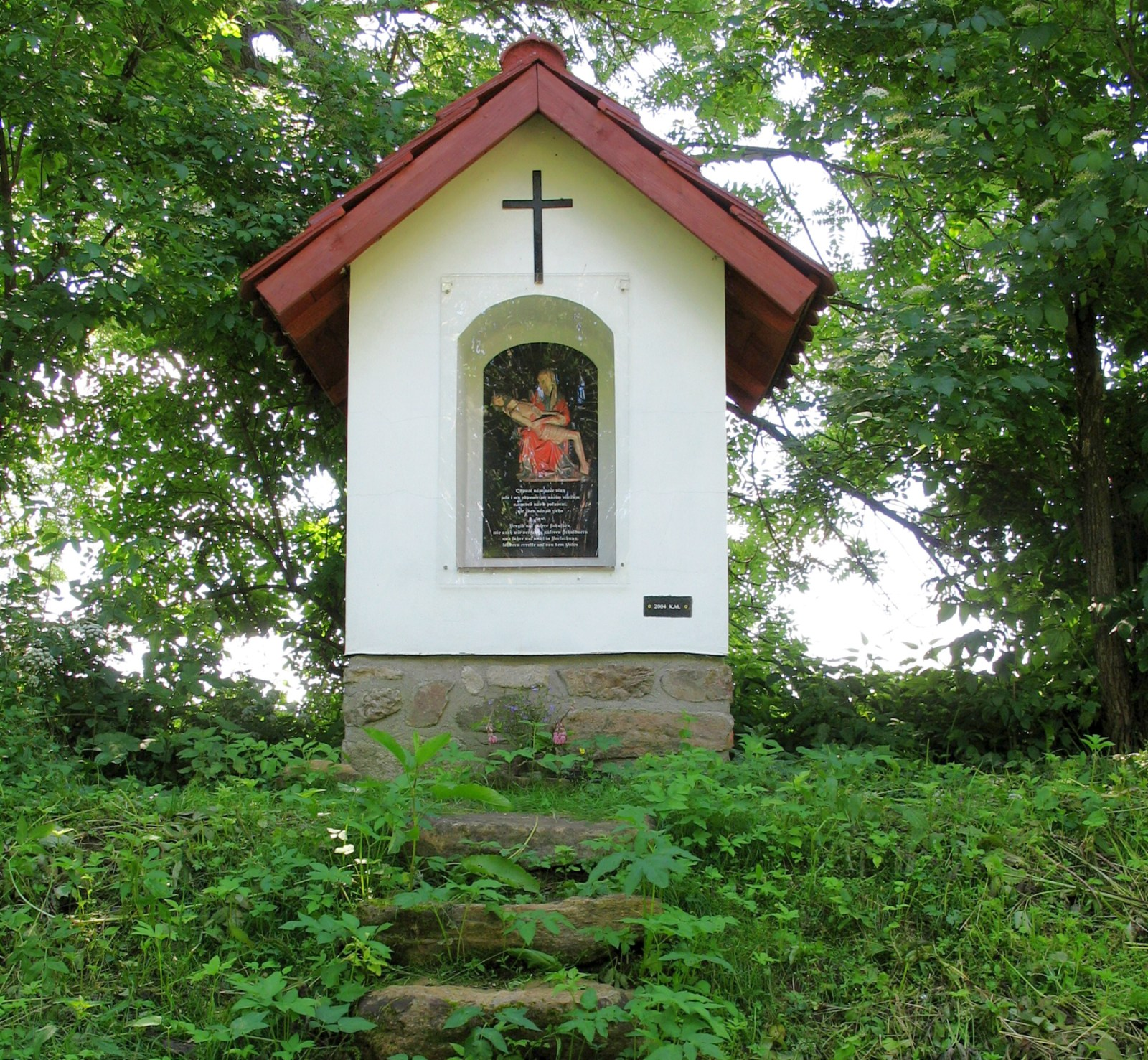 Vyšný (Křišťanov municipality, Prachatice District, Czech Republic)